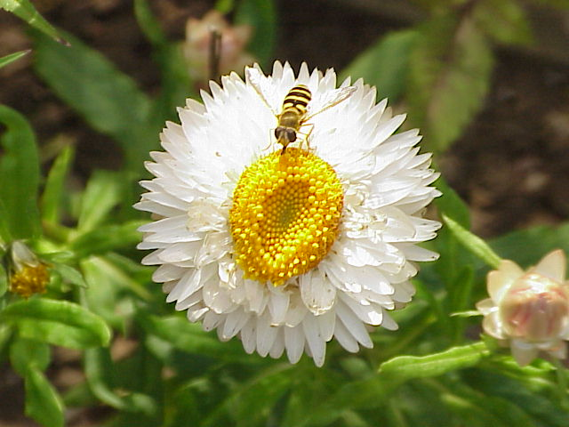 Species: Xerochrysum bracteatum Family: Asteraceae Image No. 5